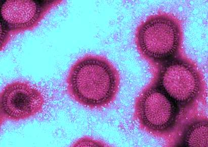 Picture of the H1N1 virus